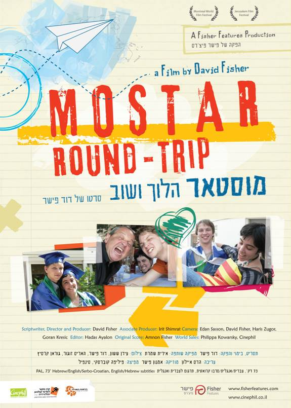 offical poster of the film Mostar Round-Trip